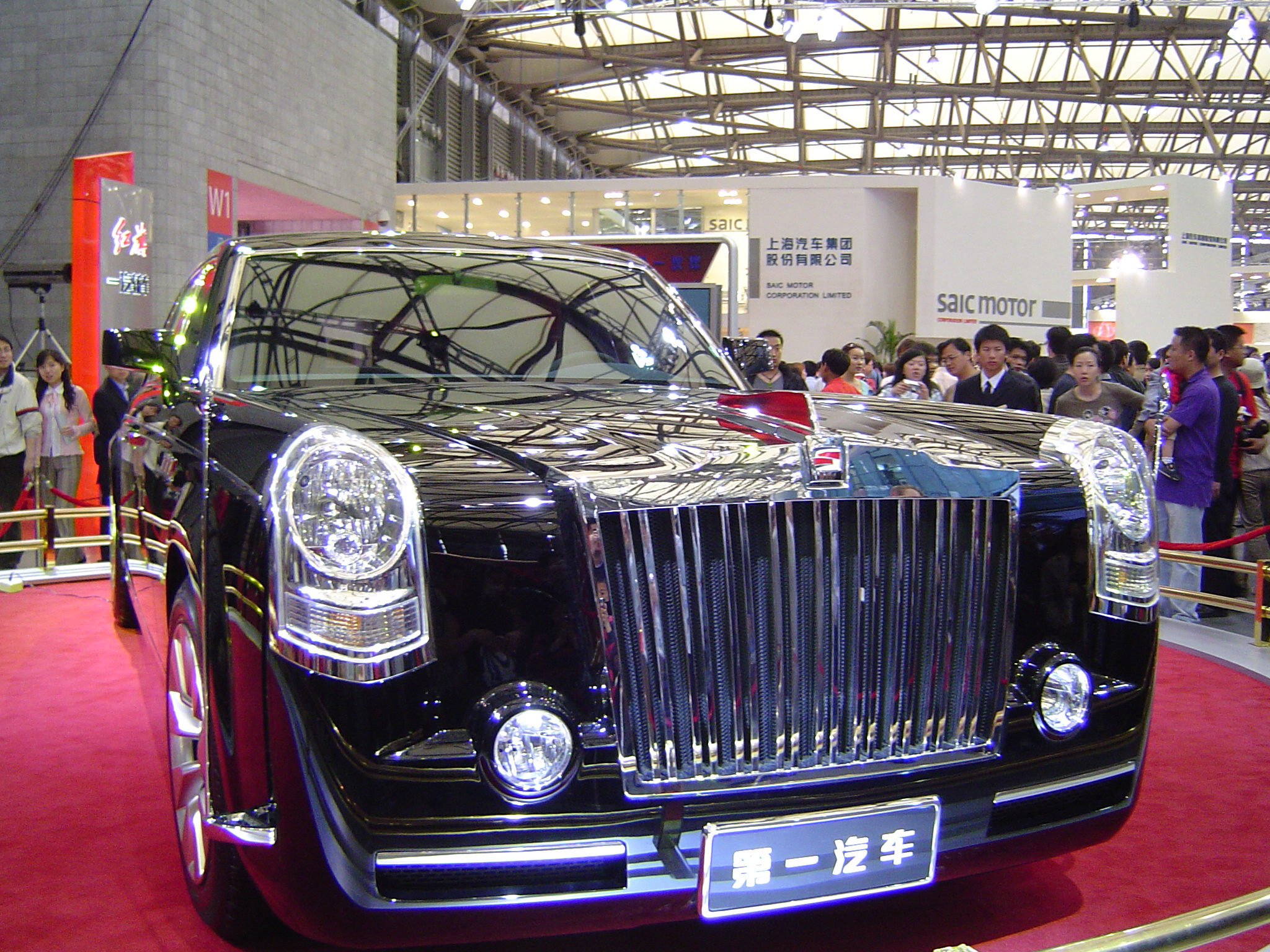 FAW showed the Hongqi HQD concept car at the 2005 Shanghai Auto Show